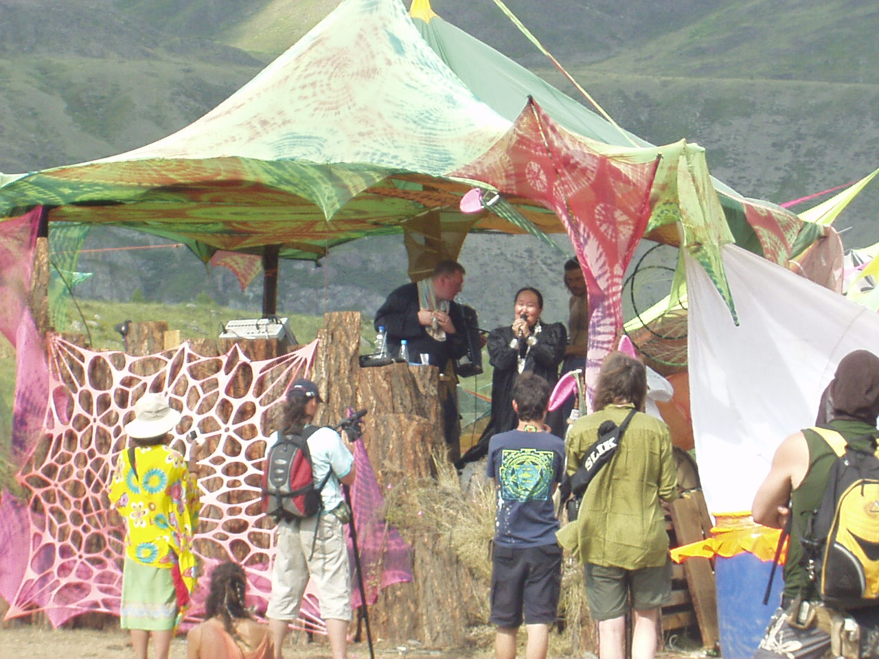 Stepanida Borisova performs at Khan-Altay psytrance festival